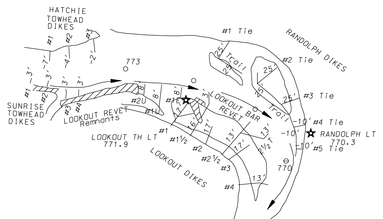 Map of the navigation channel of the Mississippi River and dikes at the location of Randolph, Tennessee at river mile 770 as it is included in the Navigation Bulletin No. 2 of 2006 issued by the USACE, Memphis District. The map is a partial reproduction (ca. 30%) of page 26 in the map section of the bulletin.